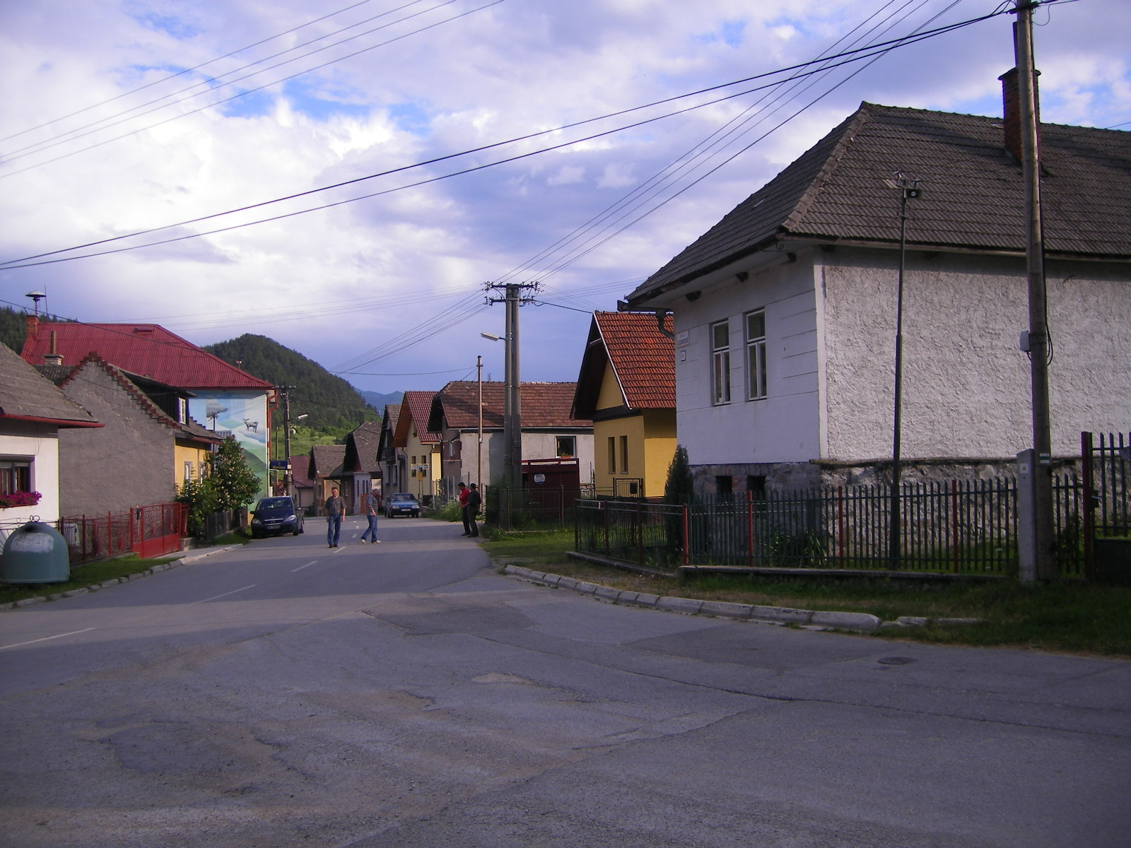 Šútovo - street view